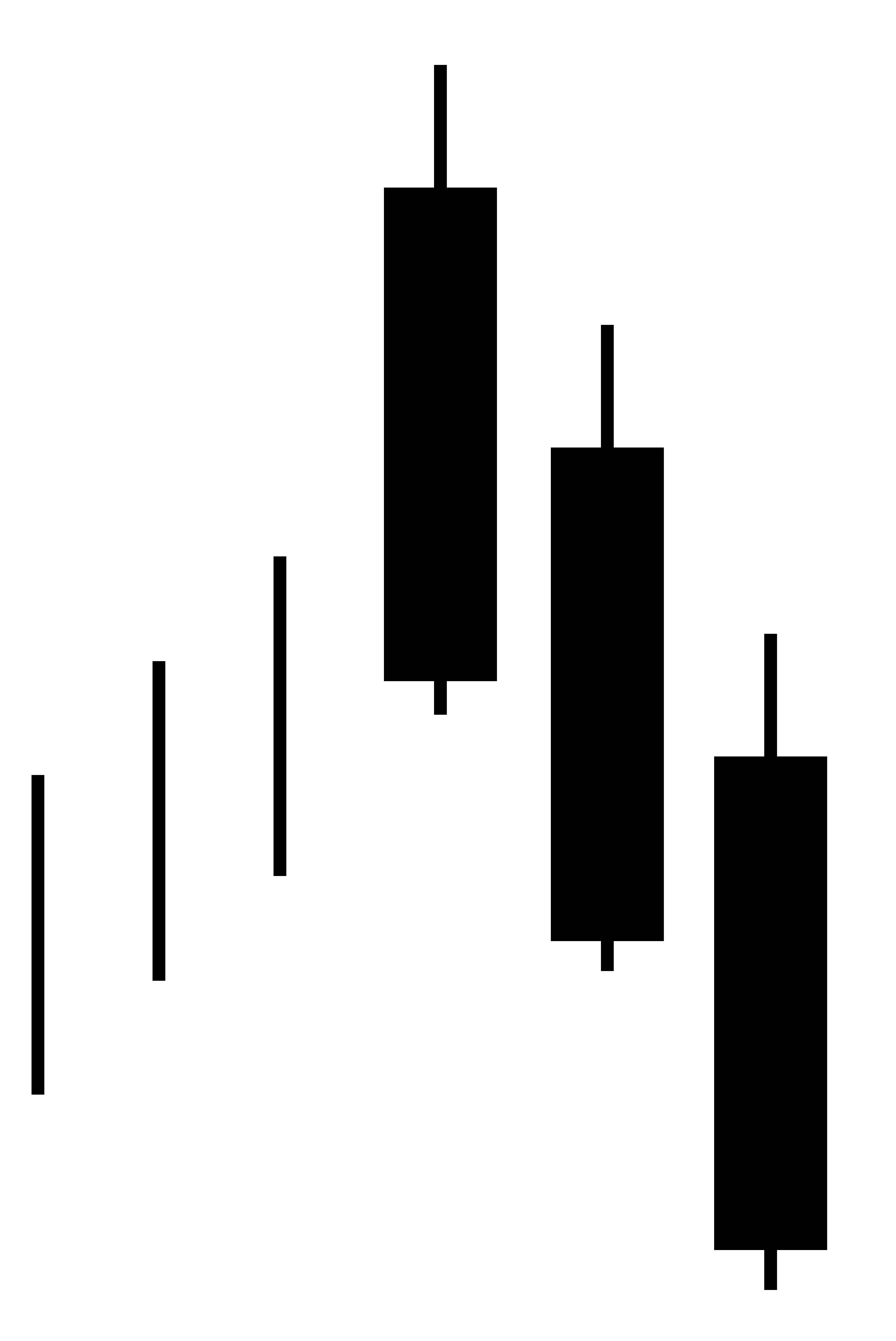 Bearish meeting lines